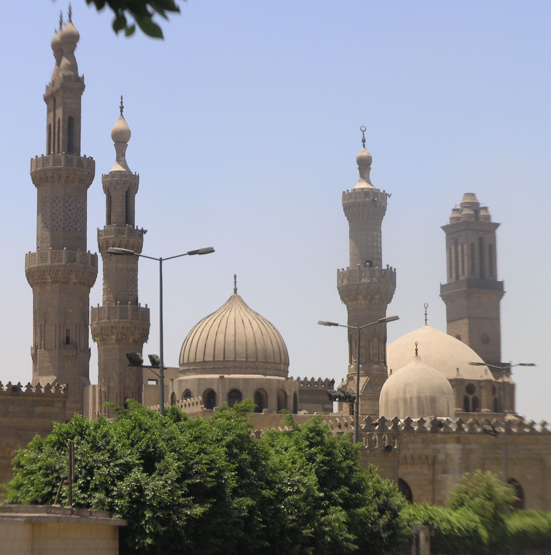 Cairo - Islamic district - Al Azhar Mosque and University.JPG